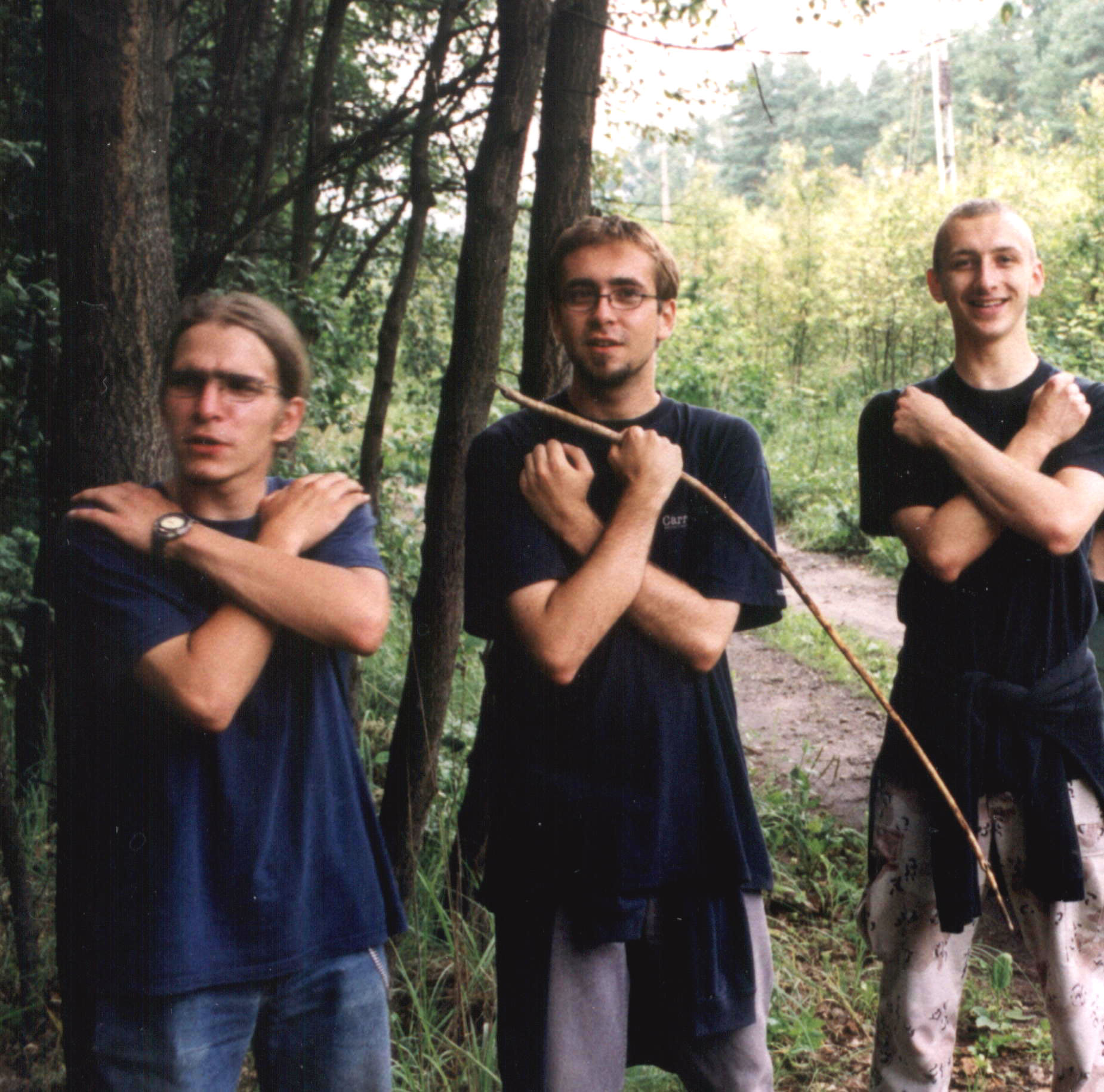 In this LARP, crossing your arms over your chest represents the state of invisibility.